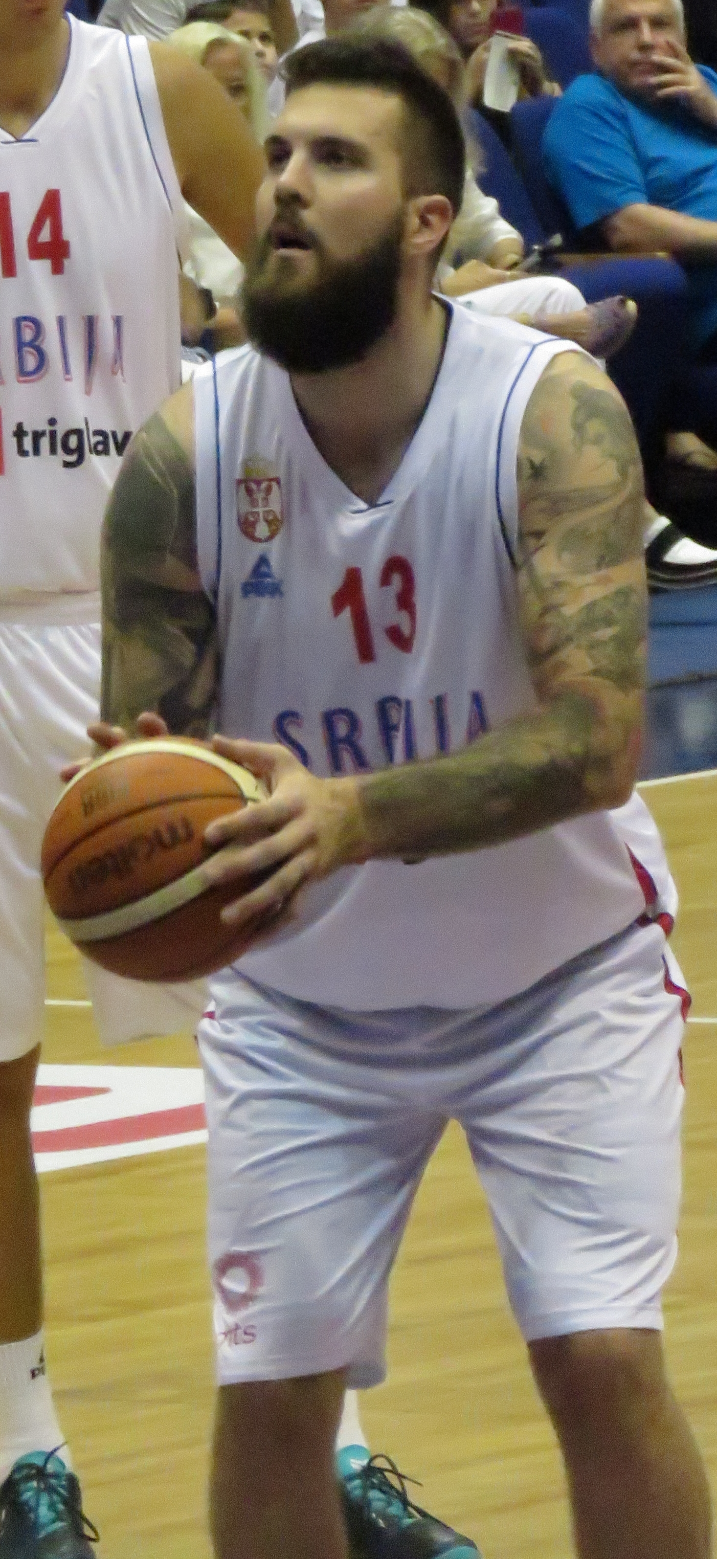 Israel vs. Serbia - August 23, 2015